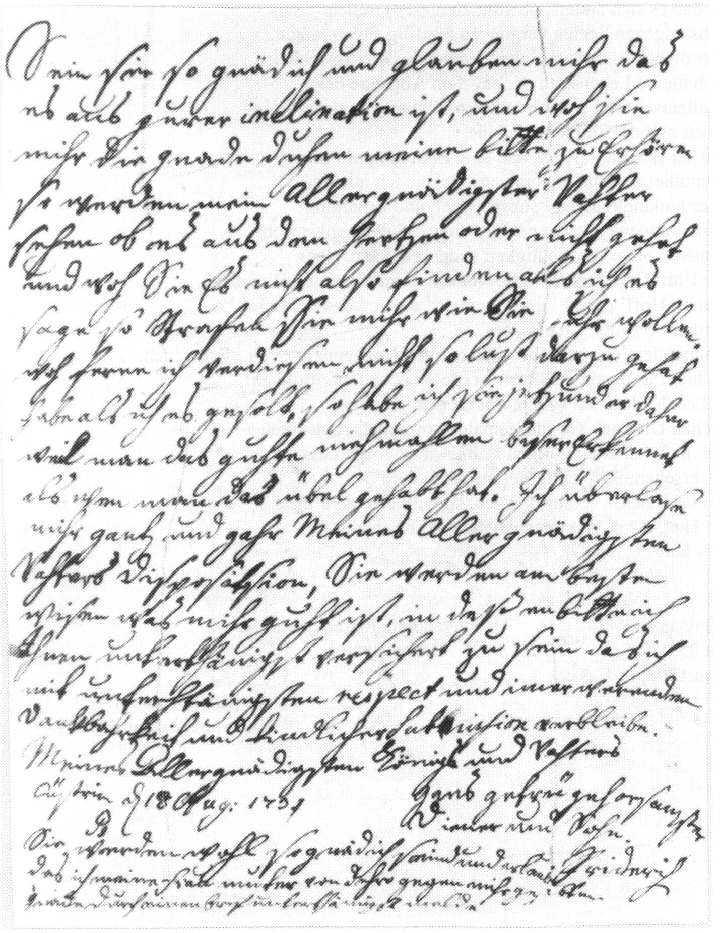 Frederick the Great as crown prince: request for royal pardon to his father Frederick William I of Prussia after his attempted escape. Geheimes Staatsarchiv Preußischer Kulturbesitz, Brandenburg-Preußisches Hausarchiv, Rep. 47 König Friedrich II., J 1, Bl. 3b.